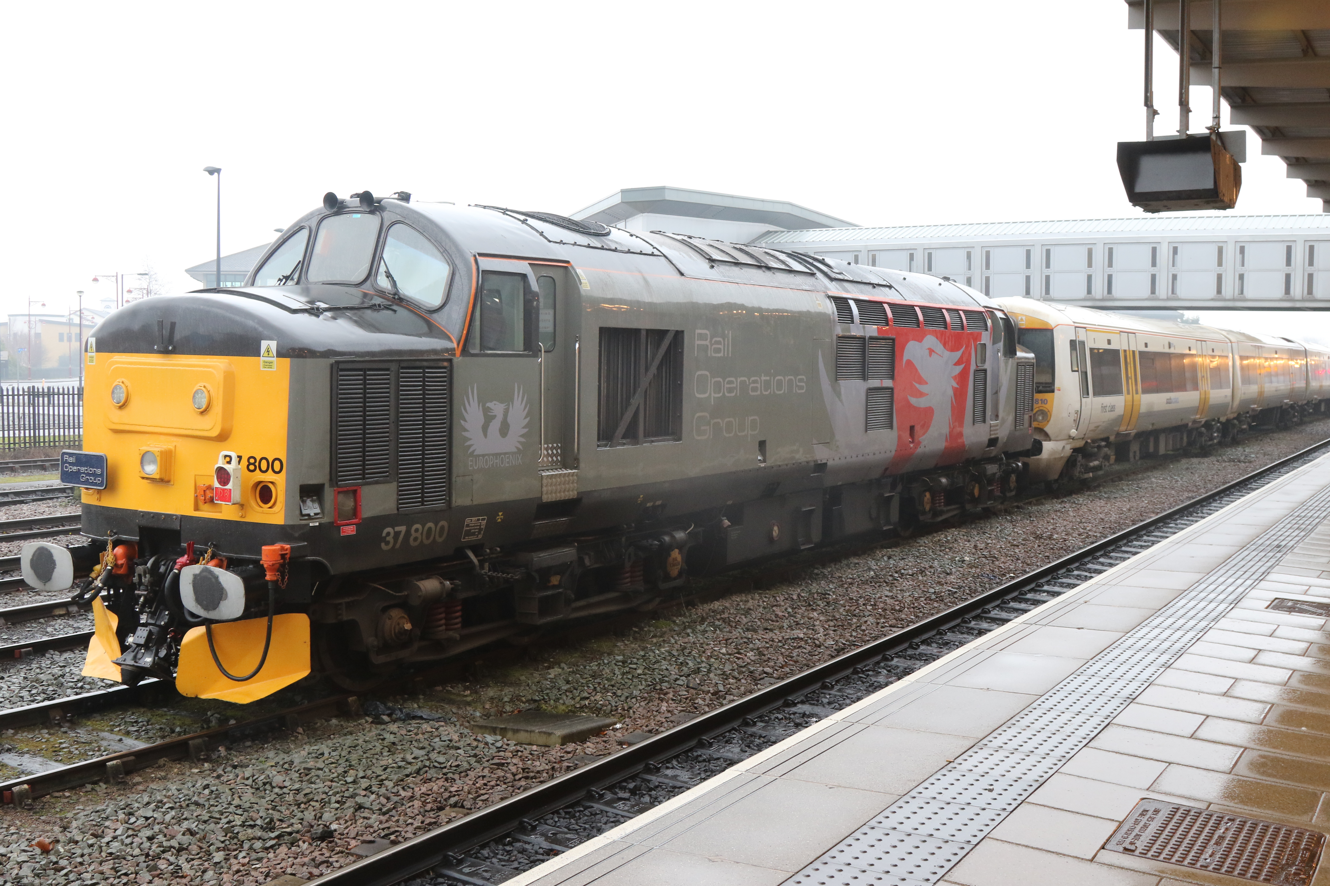 37800 at Derby railway station